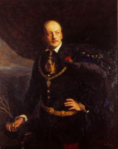 Portrait of Count Leopold Berchtold